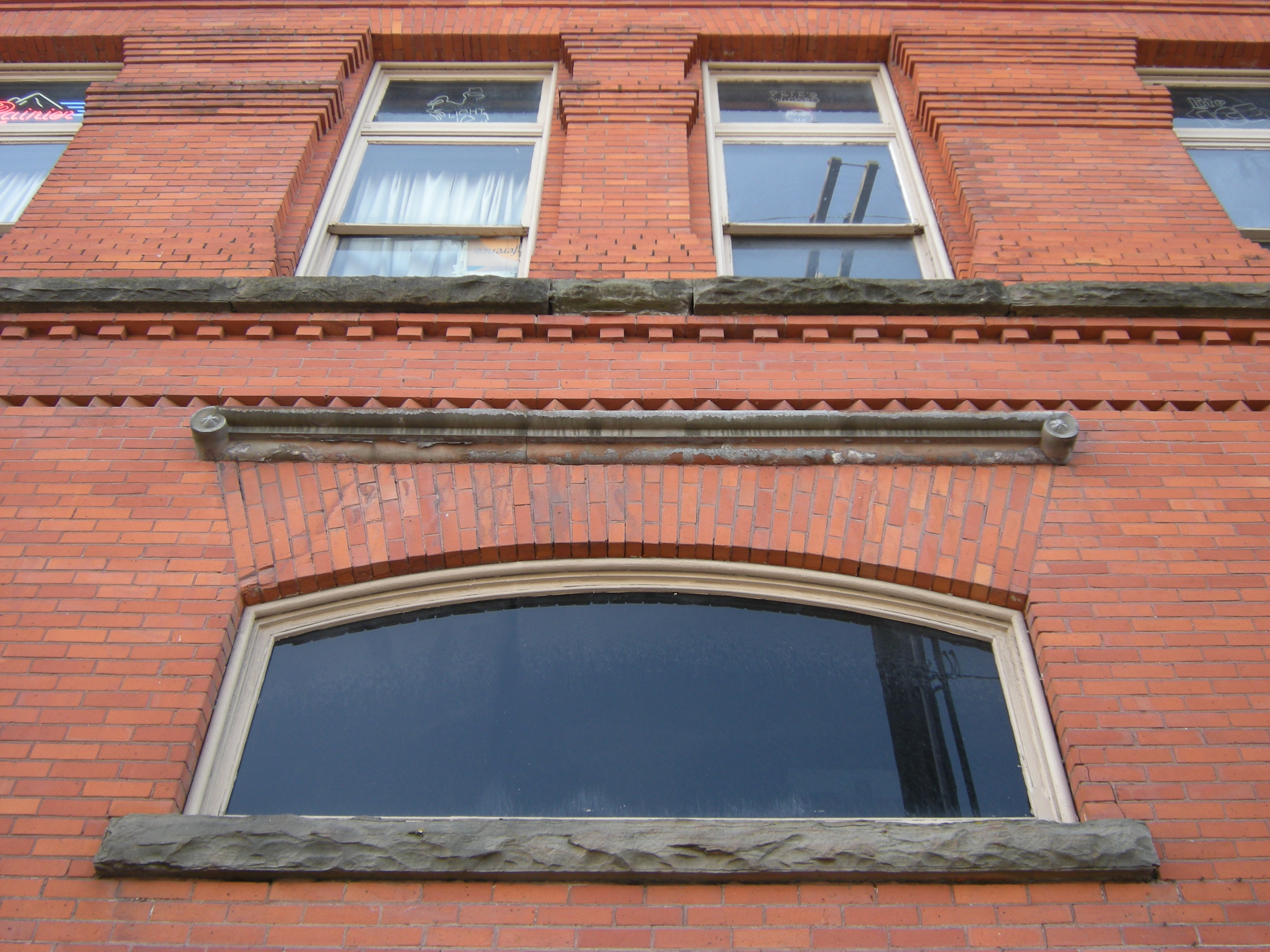 Window, McCabe Building, home of McCabe's American Music Cafe, 3120 Hewitt Avenue, Everett, Washington, USA. The building is listed on the National Register of Historic Places.